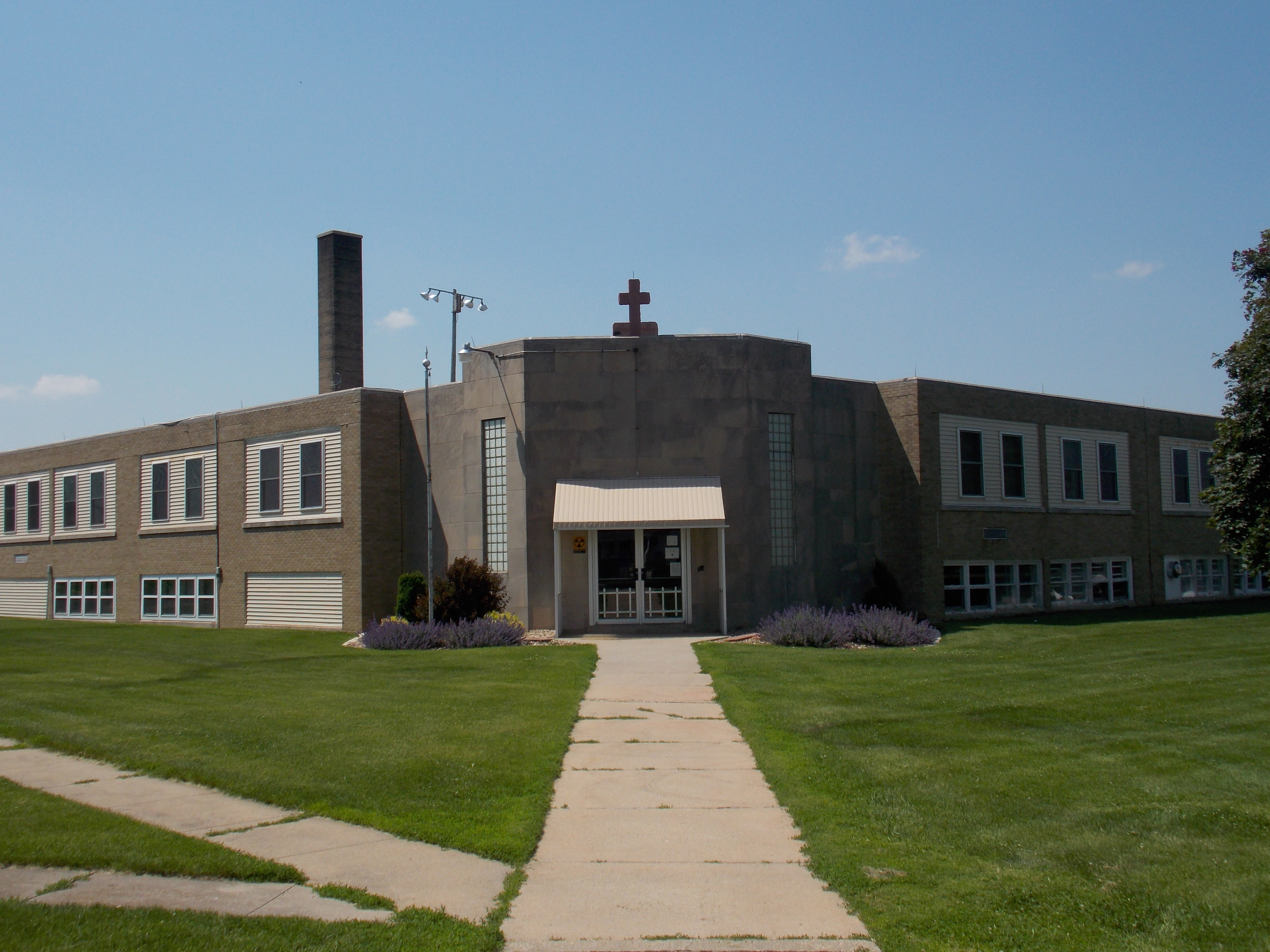 Saints Peter and Paul School in Petersburg, Iowa.